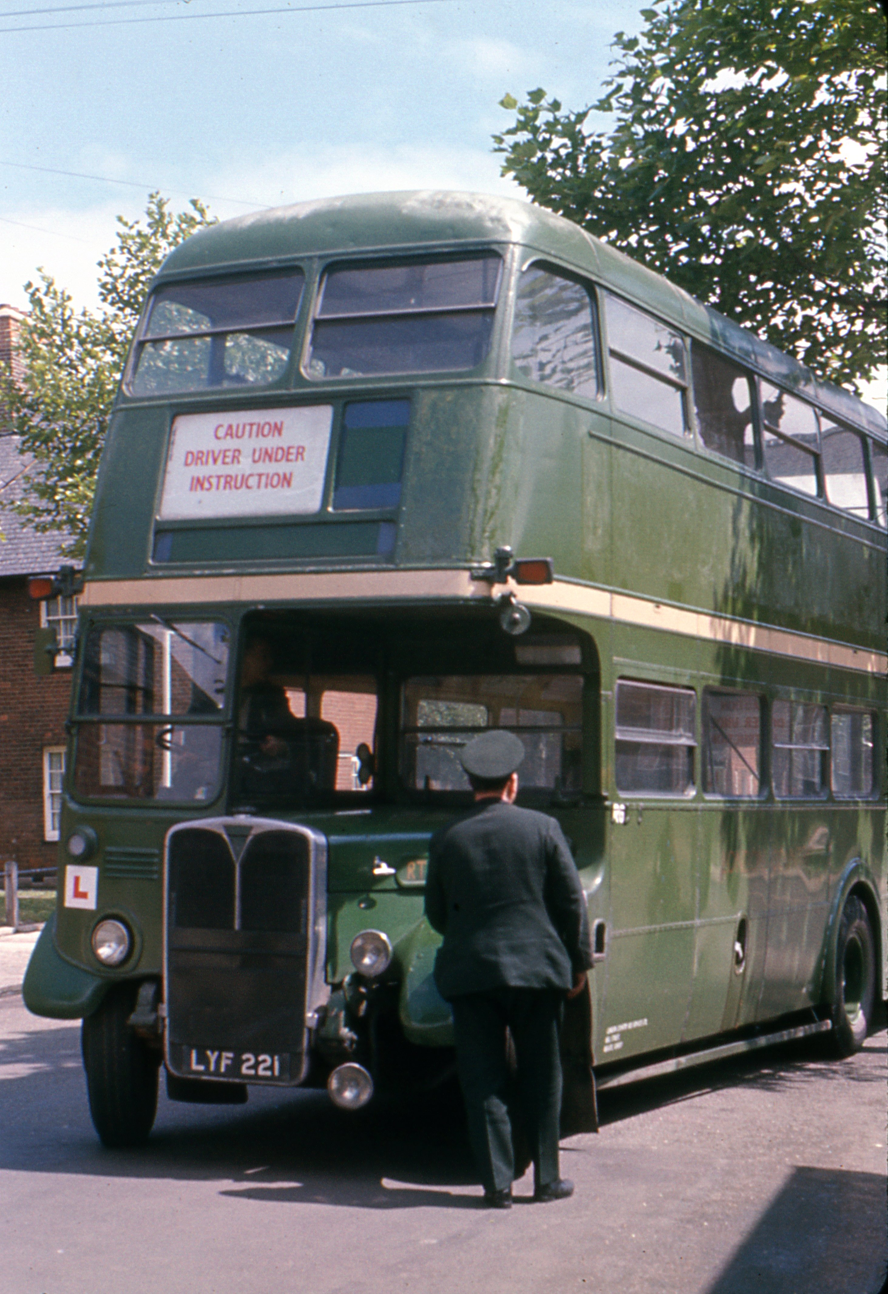 I snapped a quick couple of pictures whilst training to drive buses with London Country in 1972. I passed my test in this RT. Camera: Olympus Pen F Half Frame SLR.